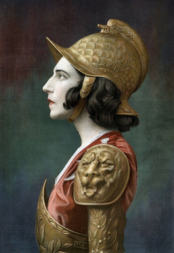 First page of the newspaper The theater of 1 June 1911 Number 299 in illustration Mrs. Ida Rubinstein in the role of Saint Sebastian in the play The Martyrdom of Saint Sebastian in Chatelet Typogravure of Goupil